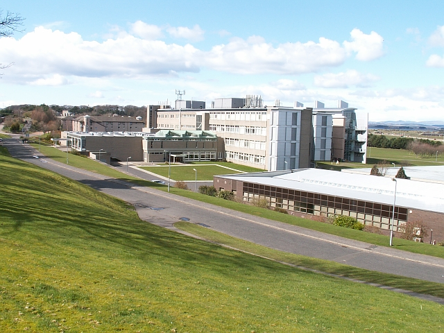 Chemistry building, North Haugh, St Andrews. The Chemistry building and in the foreground part of the Technology Centre which make up about half of the North Haugh complex of St Andrews University